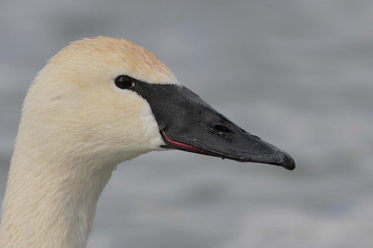 Trumpeter Swan (Cygnus buccinator) -- Bond Head, Ontario, Canada -- 2007 February